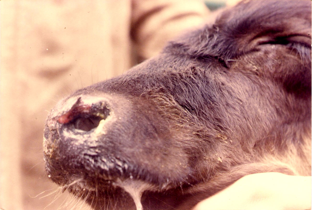 Bovine malignant catarrhal fever: foamy saliva /erosions of nostrils / photophobia